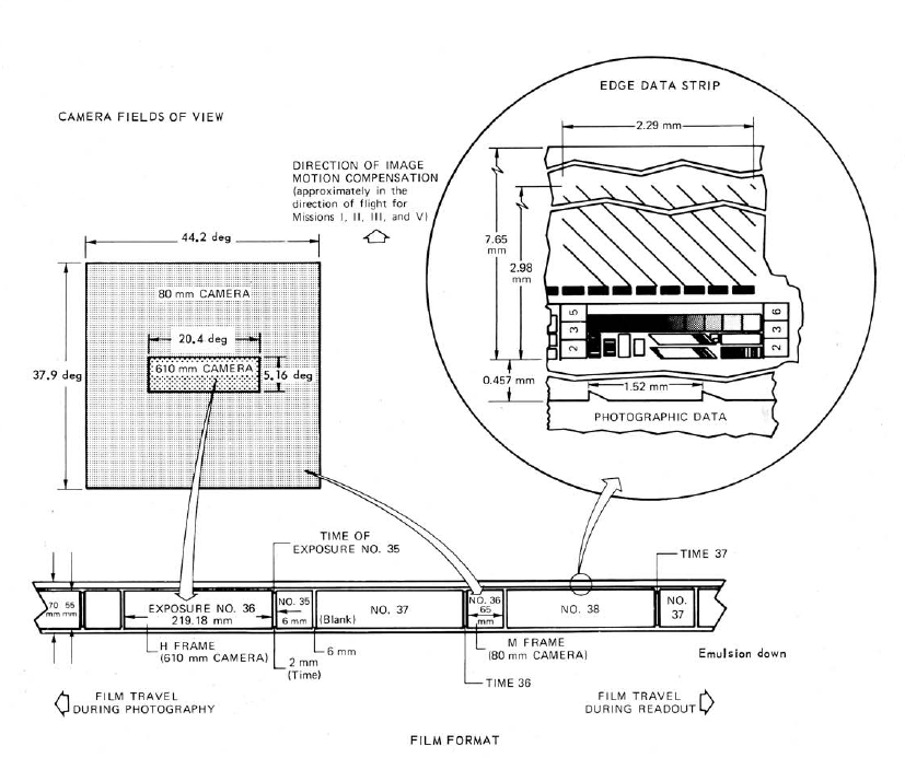 Lunar Orbiter 70mm film format